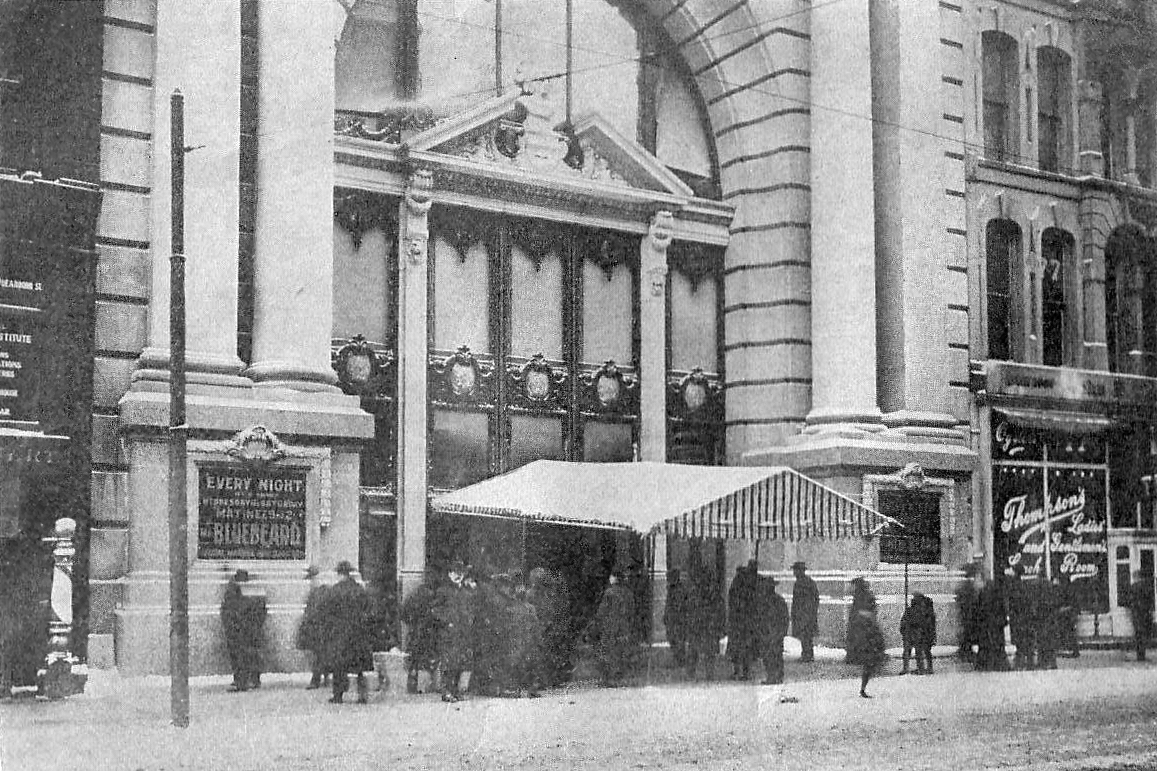 Iroquois Theatre in a 1903 photo